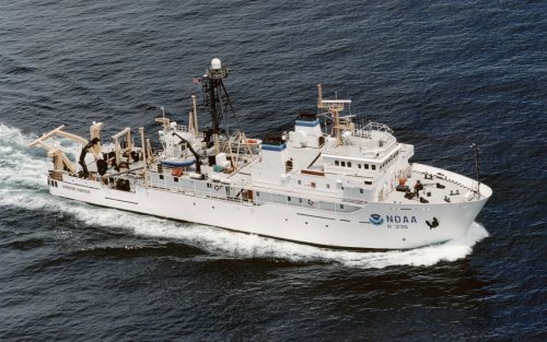 NOAA Ship Gordon Gunter ex-Relentless (T-AGOS-18)